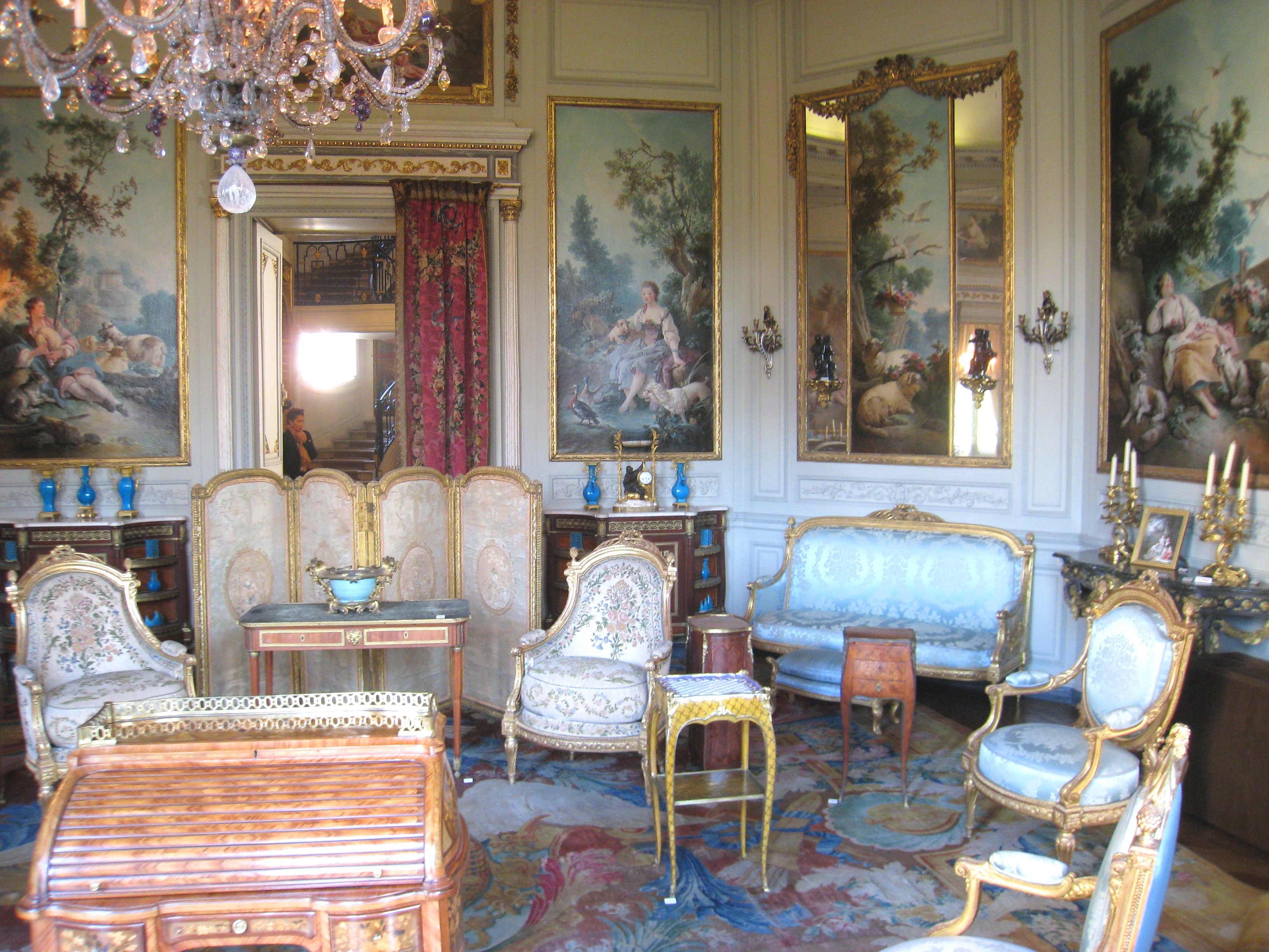 Musée Nissim de Camondo, Paris, France - Salon des Huets, with paintings by Jean-Baptiste Huet. There were no restrictions on photography (other than prohibiting flash) in writing and when I asked explicitly. Thus the museum did not impose restrictions on the use of this image.